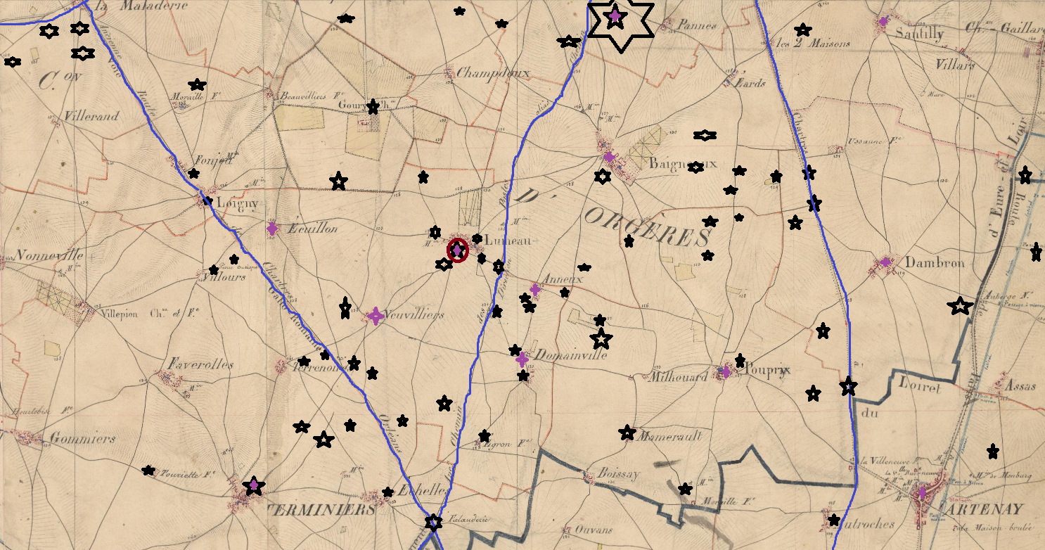 Etat-Major map dated 1866 (source : Institut géographique national - IGN) + indication of sites with evidence of human occupancy from -100 BCE to 300 CE (black) and 300 CE to 500 CE (purple) in the region around commune de Lumeau, Eure-et-Loir, France. Own work derived from data gathered in Carte géologique de la Gaule (Anne Ollagnier et al., 1994, isbn 2-87764-032-4 pages 347-348) and figure 4 in Alain Ferdière, « La mise en place du réseau gallo-romain d'occupation du sol en Gaule centrale : Orléanais, Berry et Auvergne. », Revue archéologique de Picardie, no 11, 1996, p. 245-260.